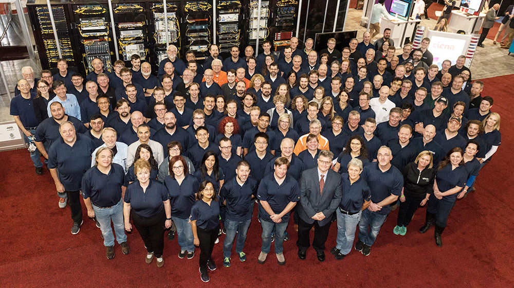 More than 200 international volunteers built and operated SCinet at the SC17 Conference in Denver, Colorado in November 2017.